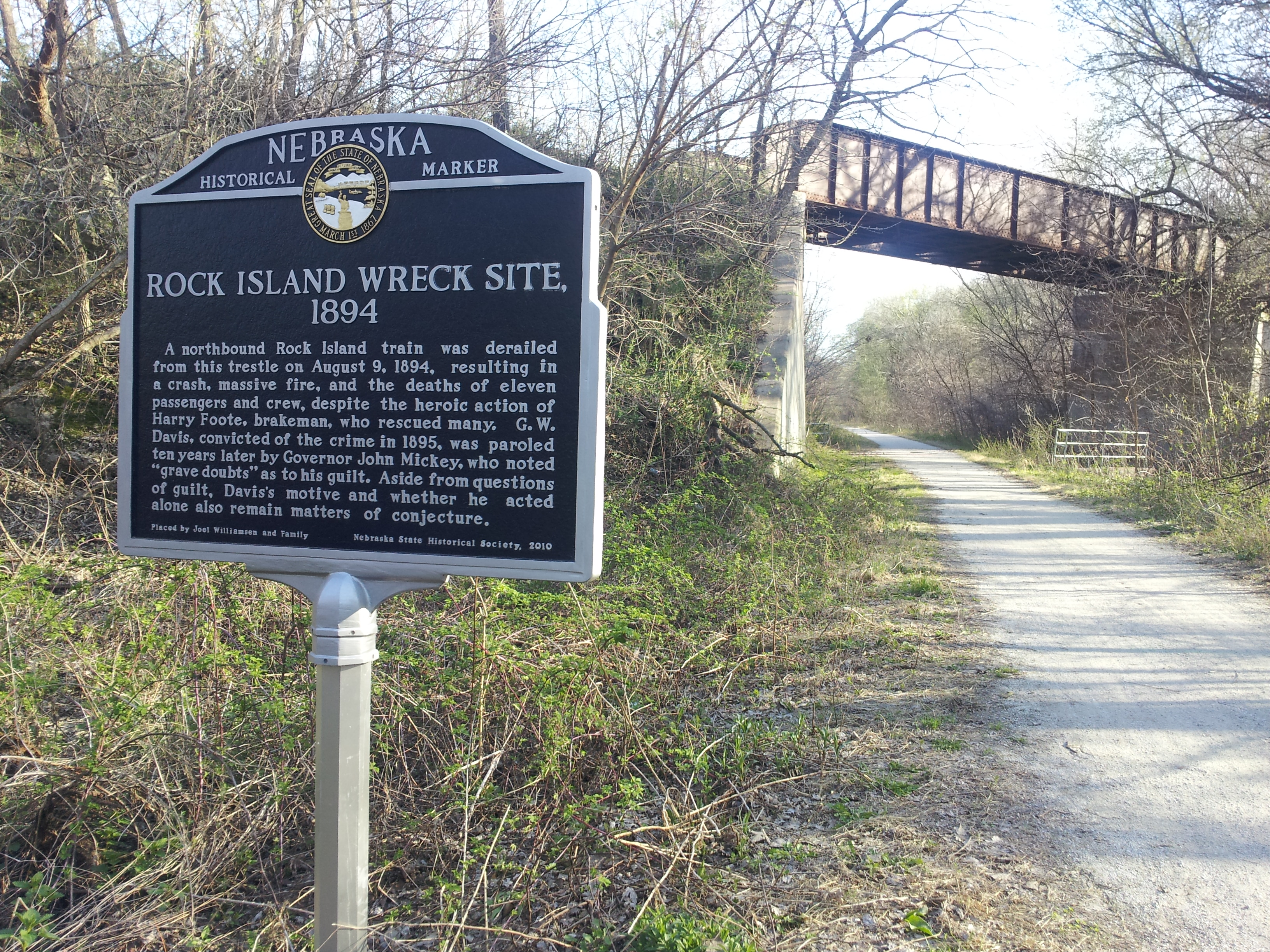 This is an image I took of the marker and trestle at the site where a Rock Island train was sabotaged in 1894, killing 11. See: 1894 Rock Island railroad wreck, Jamaica North Trail, Wilderness Park.